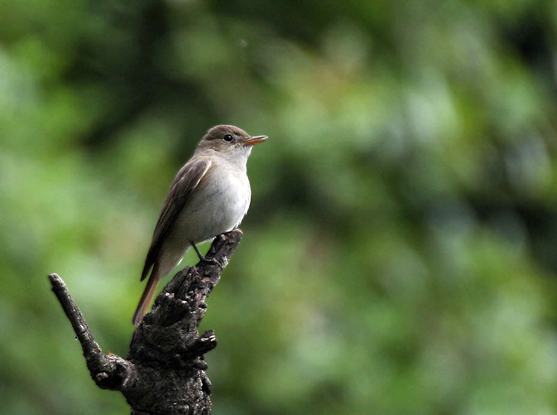 Rusty-tailed Flycatcher Muscicapa ruficauda in Kullu District of Himachal Pradesh, India.